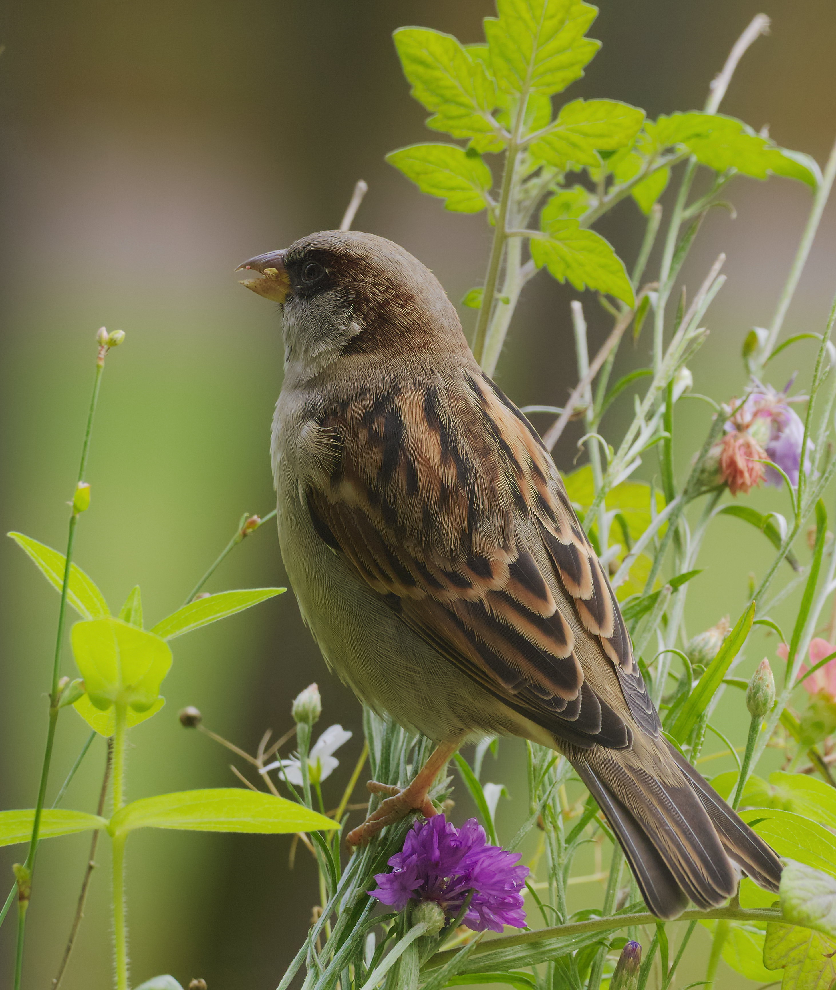 House sparrow - Passer domesticus, male. Taken in Mannheim-Vogelstang, Baden-Württemberg, Germany.